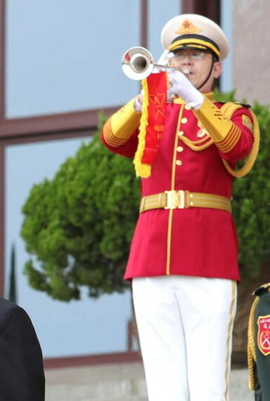 Official ceremony to welcome the President of Russia. With President of the People’s Republic of China Xi Jinping.